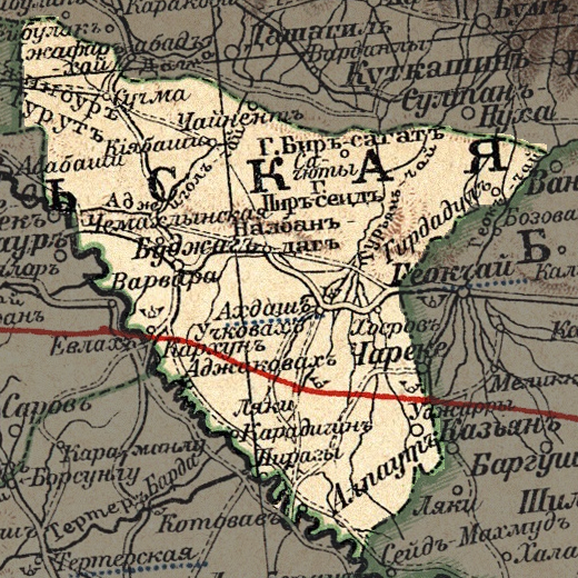 A highlighted map from 1903 of the Aresh uyezd within the Elisabethpol governorate.